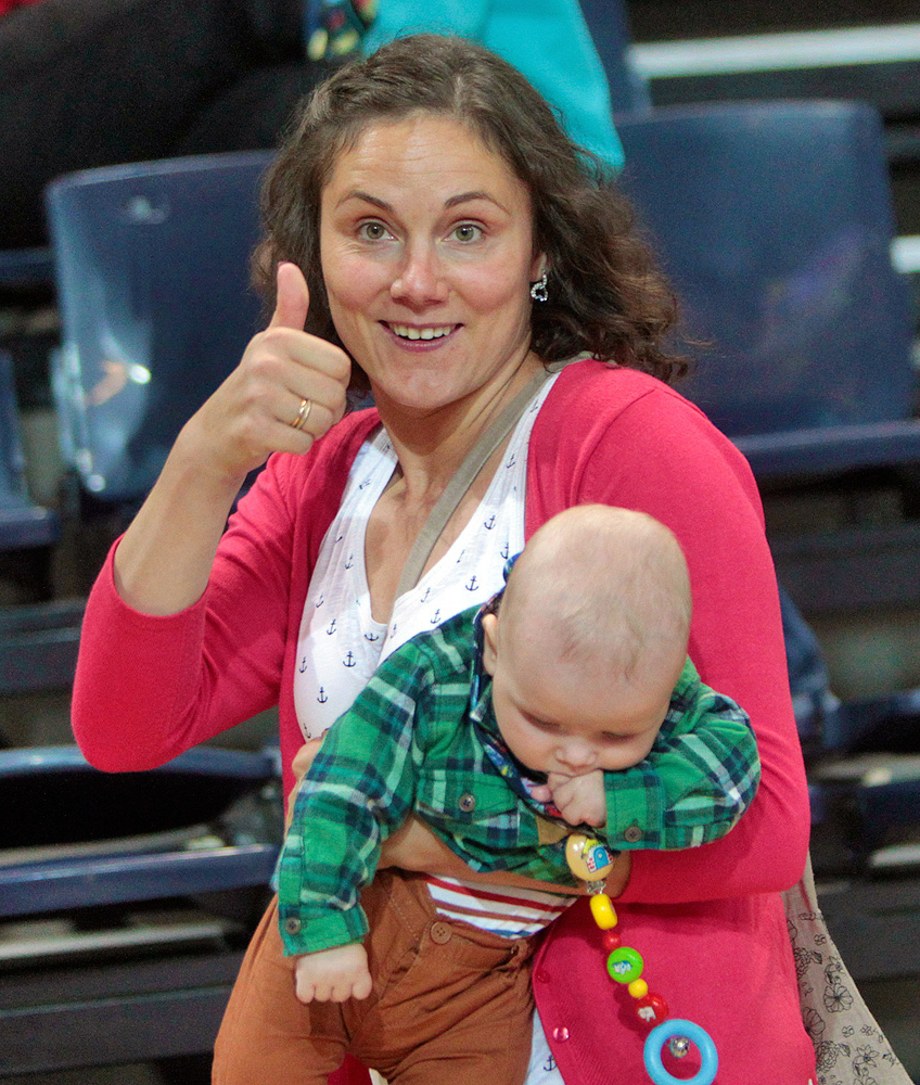 Basketball player Sandra Valuzyte-Linkeviciene